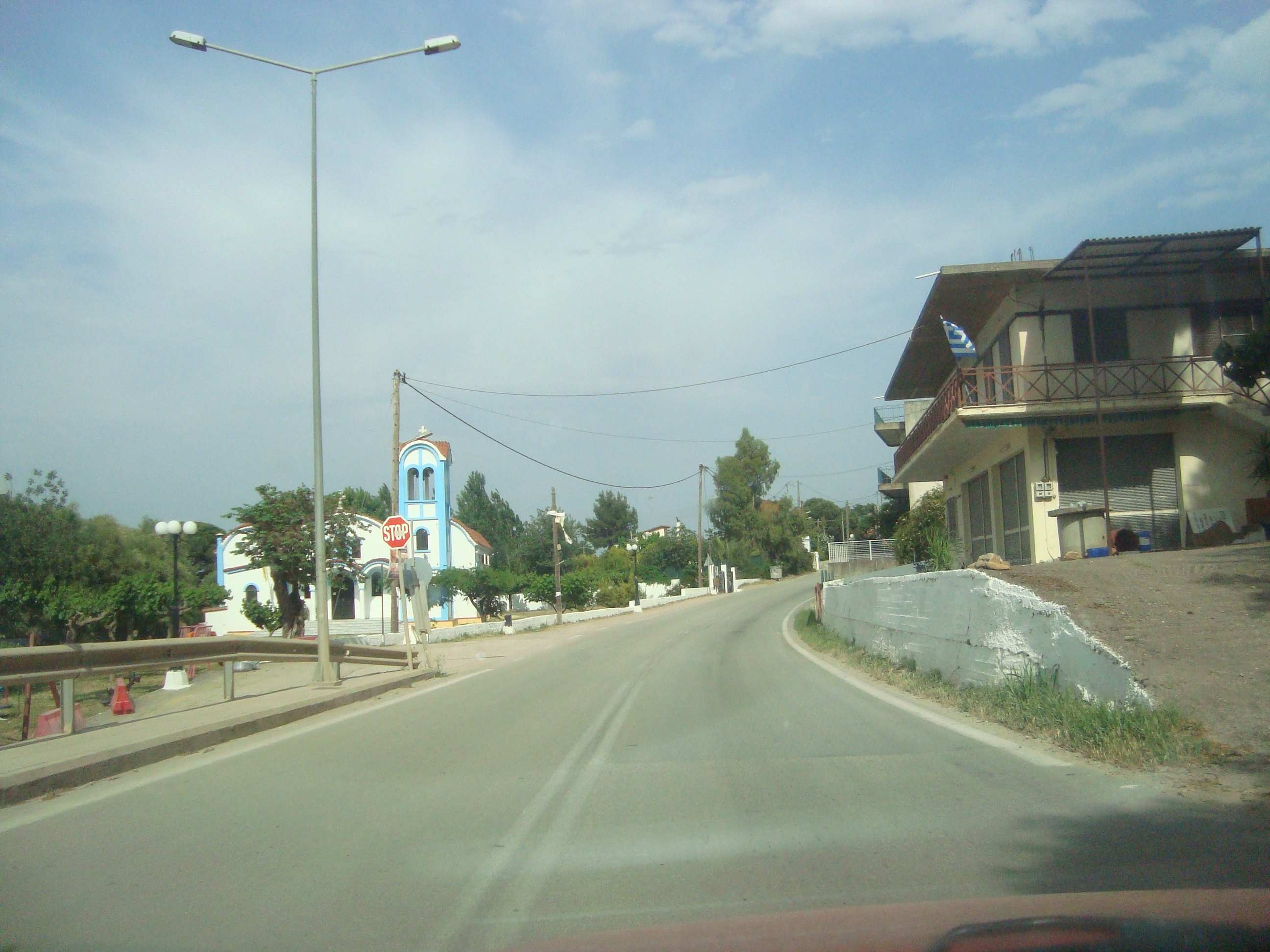 Labiri village in Achaea, Greece